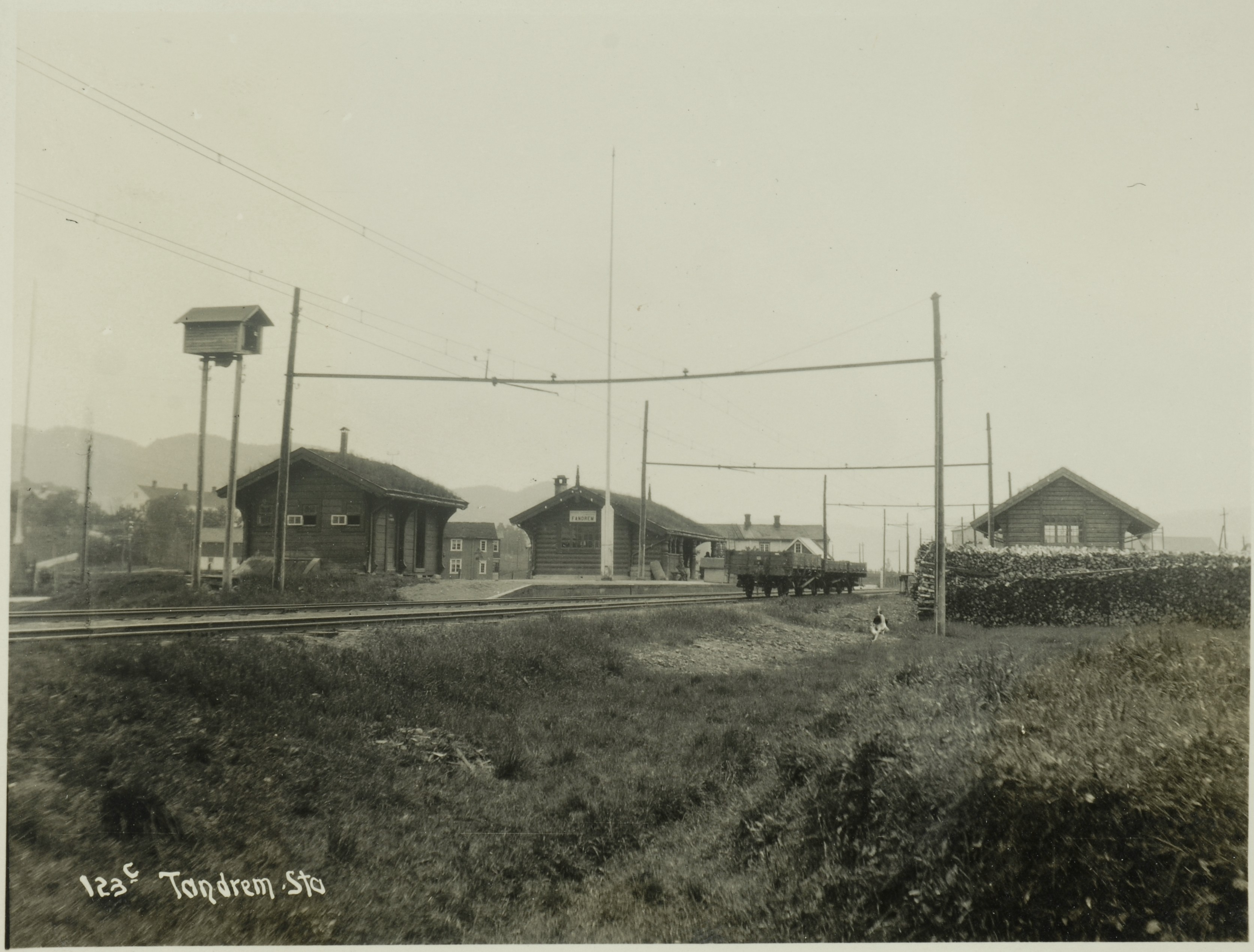 Fannrem station in Orkdal, Norway